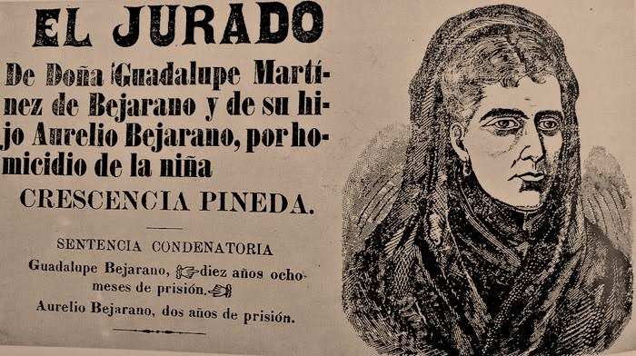 Guadalupe Martinez de Bejarano, the first female serial killer in Mexico.